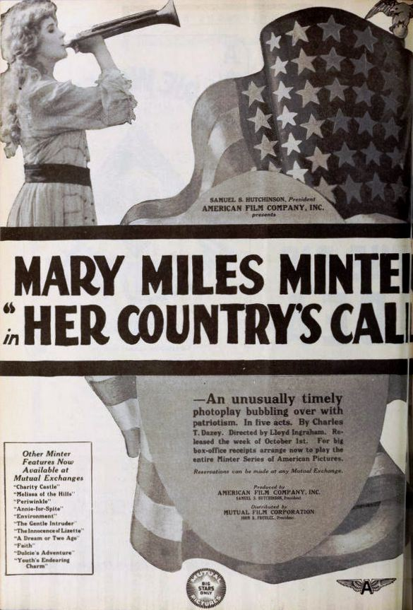 Advertisement for the American drama film Her Country's Call (1917) with Mary Miles Minter, on page 4 of the October 6, 1917 Exhibitors Herald.